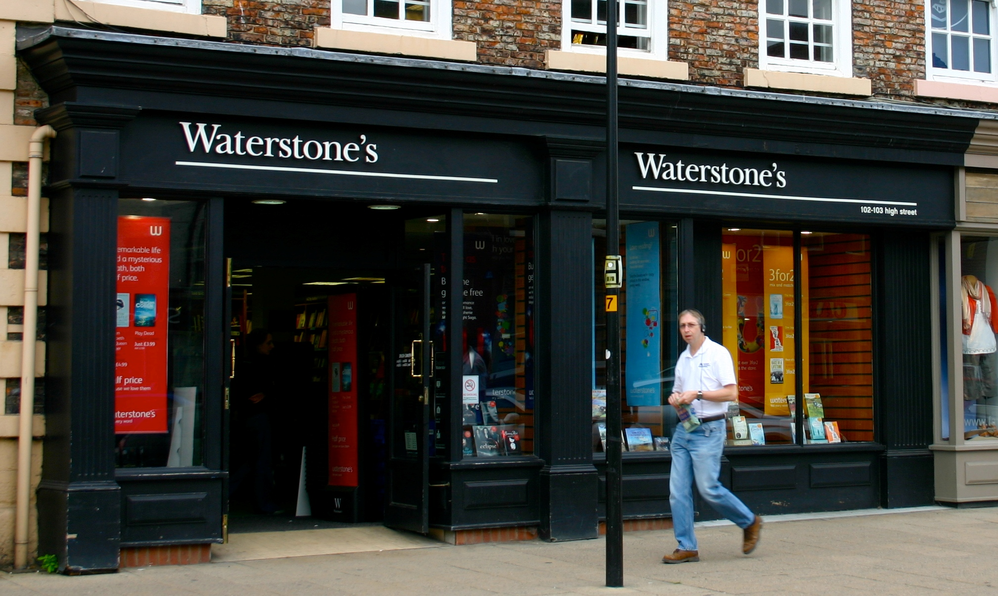 Cropped image of File:Northallerton Waterstones & Fat Face.JPG, originally taken by User:Chrisloader